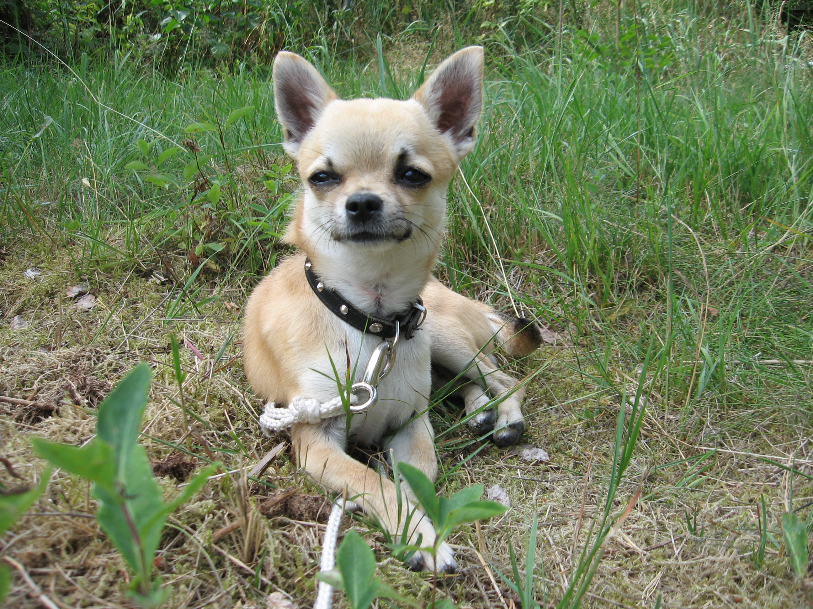 A Chihuahua laying down and looking out.